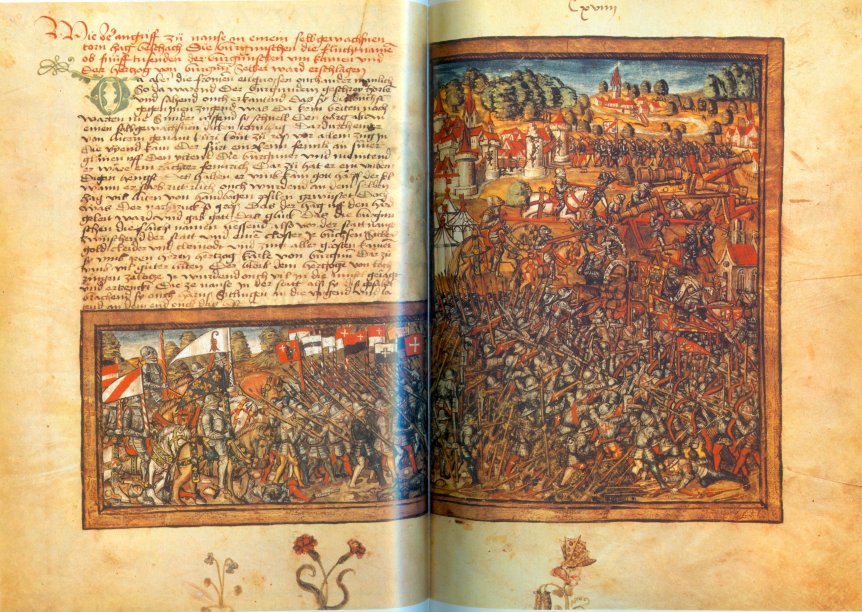 Battle of Nancy 1477